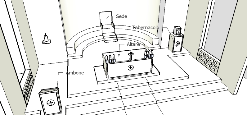 Schematic view of a sanctuary of a Catholic church, with details of the various parts labelled in Italian.